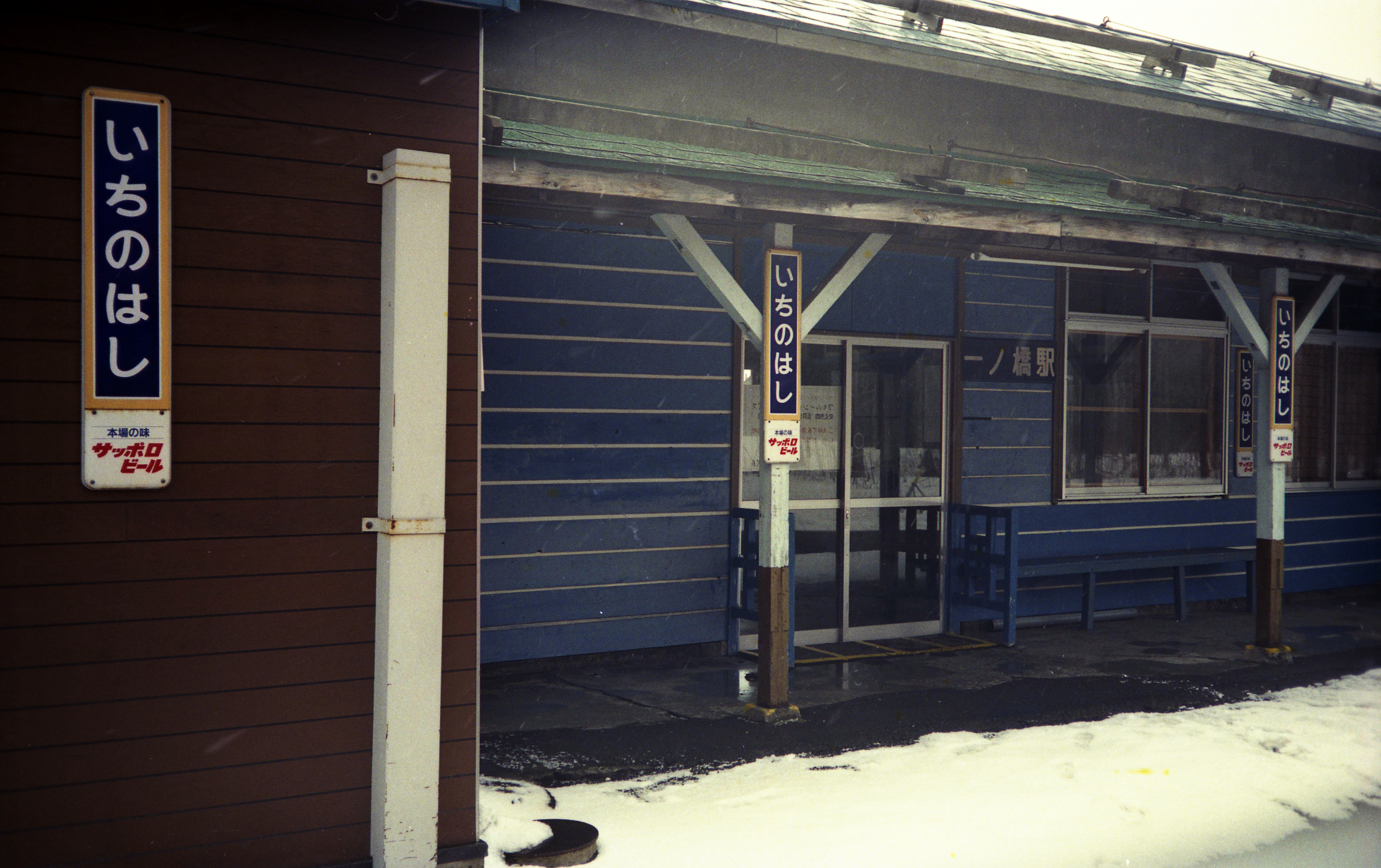 part of the building of Ichinohashi Station,Hokkaido Railway Company Nayoro Main Line(before abolished)